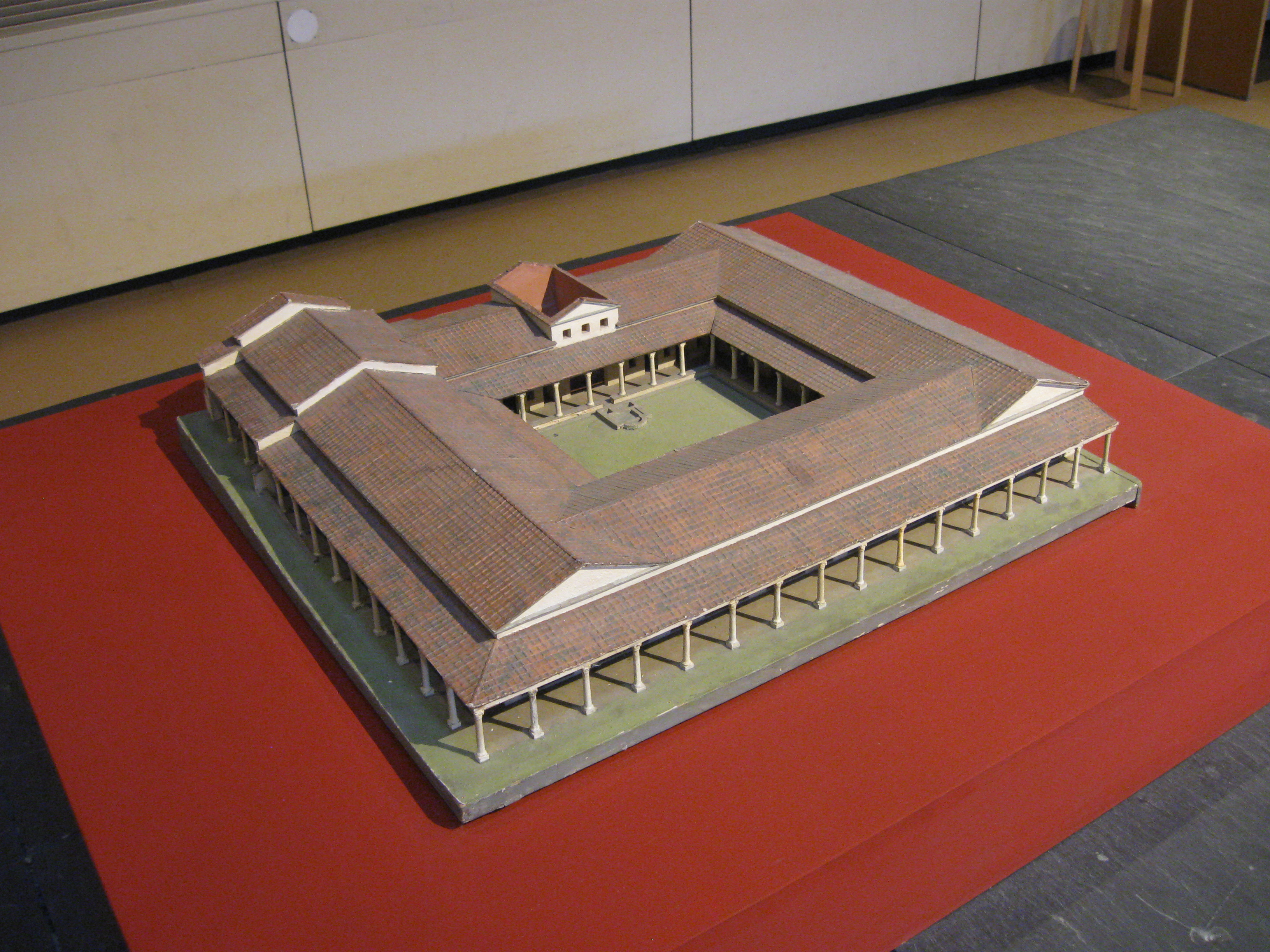 Model of ancient Roman villa in which the Dionysus Mosaic was found